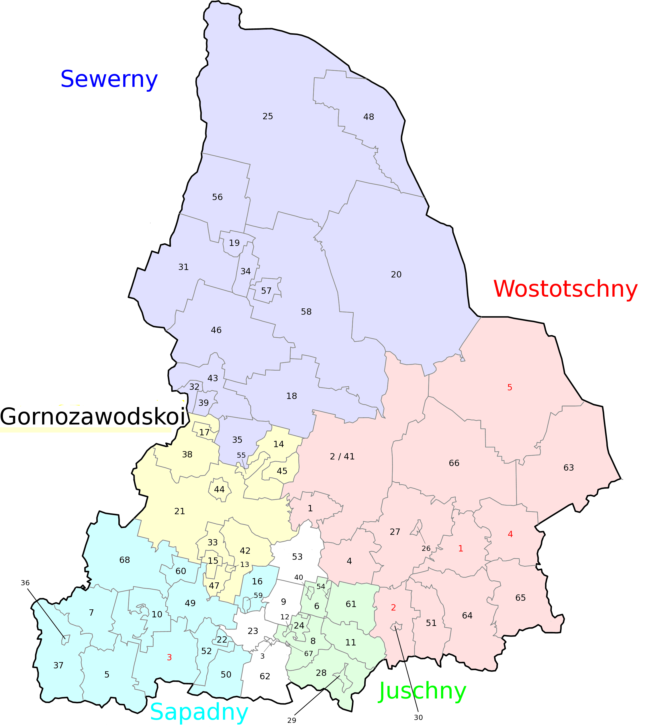 The administrative division of the Sverdlovsk Oblast with numbers in the Russian alphabetical order (black: Town districts, red: Raions)